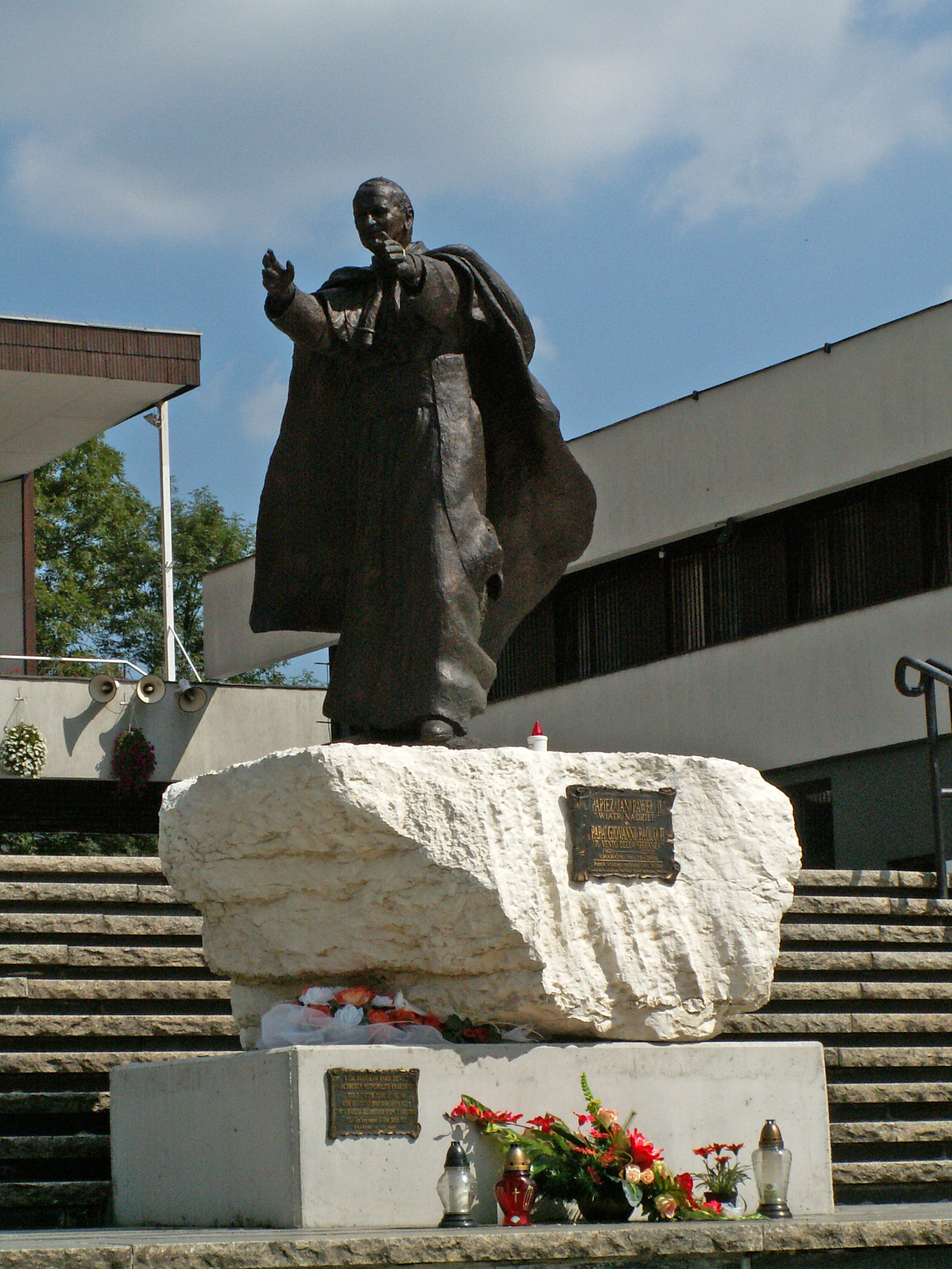 Pope John Paul II Wind of Hope monument, Ark of Our Lord Church, Nowa Huta, Krakow, Poland